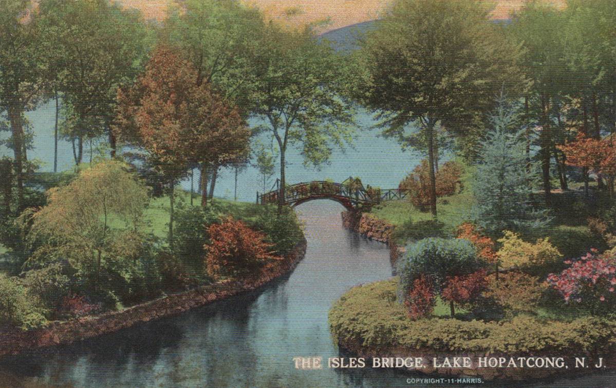 Matte hand-colored photograph postcard of The Isles Bridge, Lake Hopatcong, New Jersey. Back is divided and bears a cancelled one-cent stamp of George Washington. Text reads, "Published by W. J. Harris, Lake Hopatcong, N. J. Made in U.S.A."